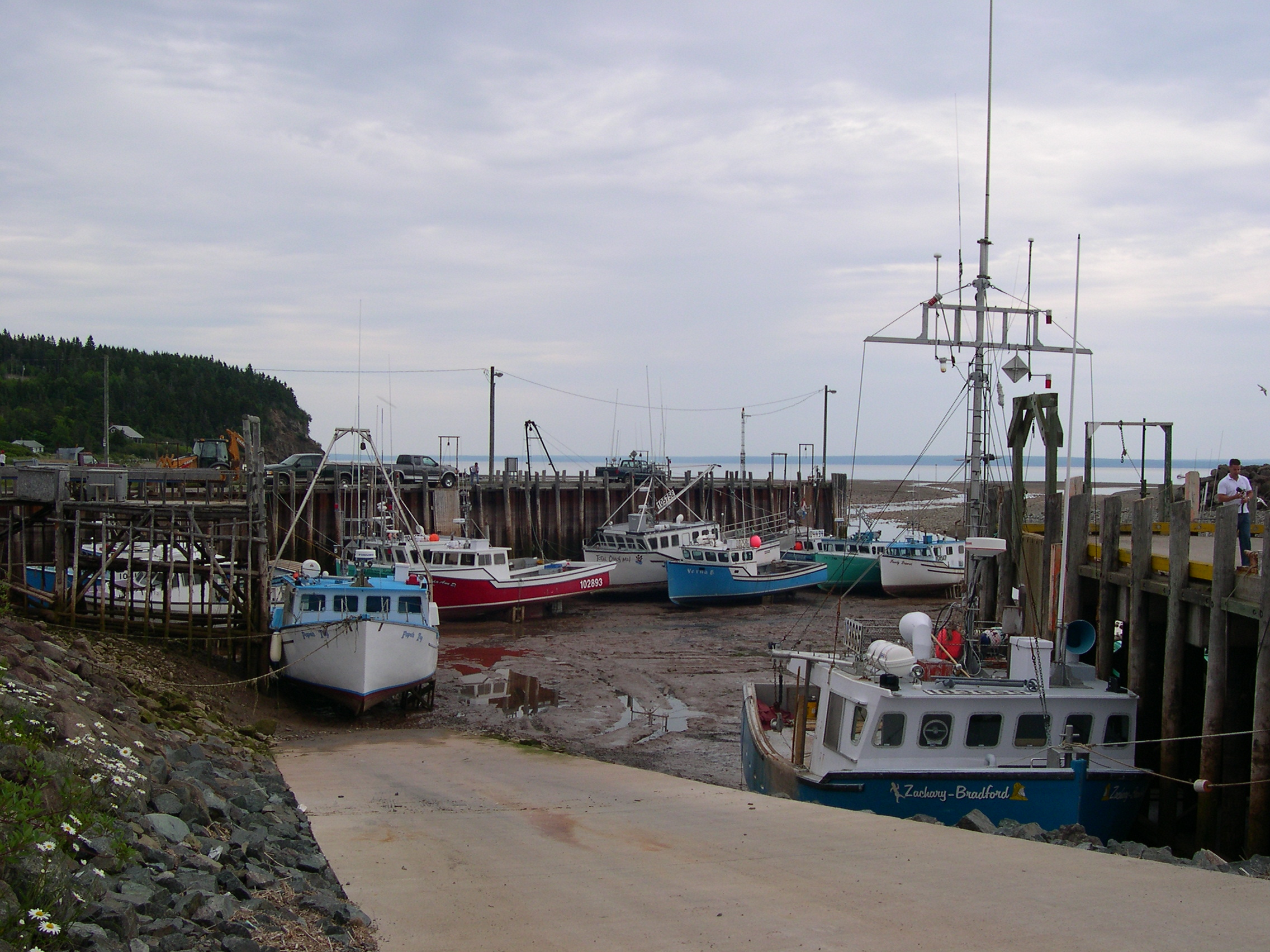 Alma in the Bay of Fundy - TIDE OUT Contrast with Image:Bay of Fundy - Tide In.jpgJune 28 - July 16, 2003